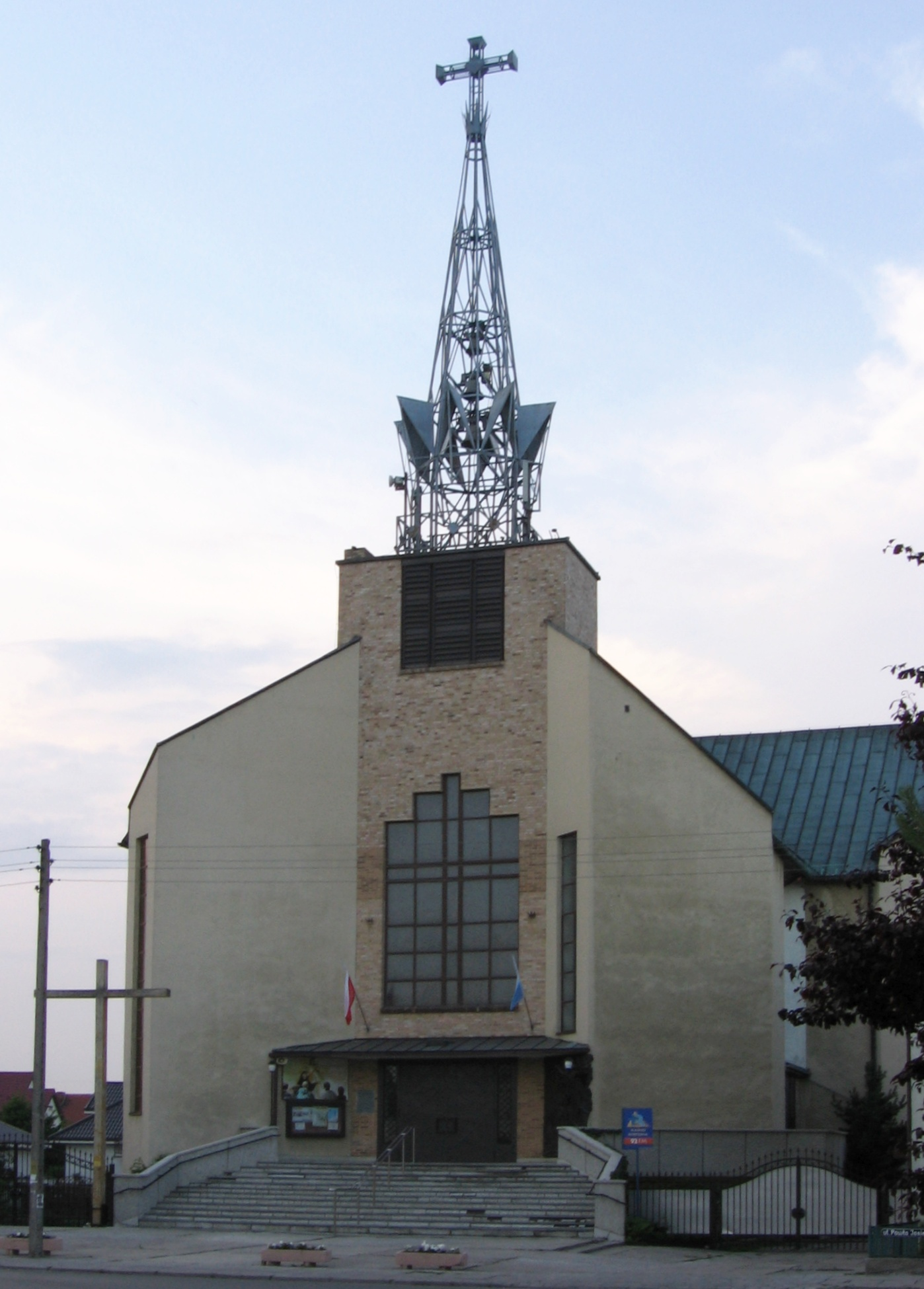 Wrocław, Poland - settlement Wojszyce: Salvator church